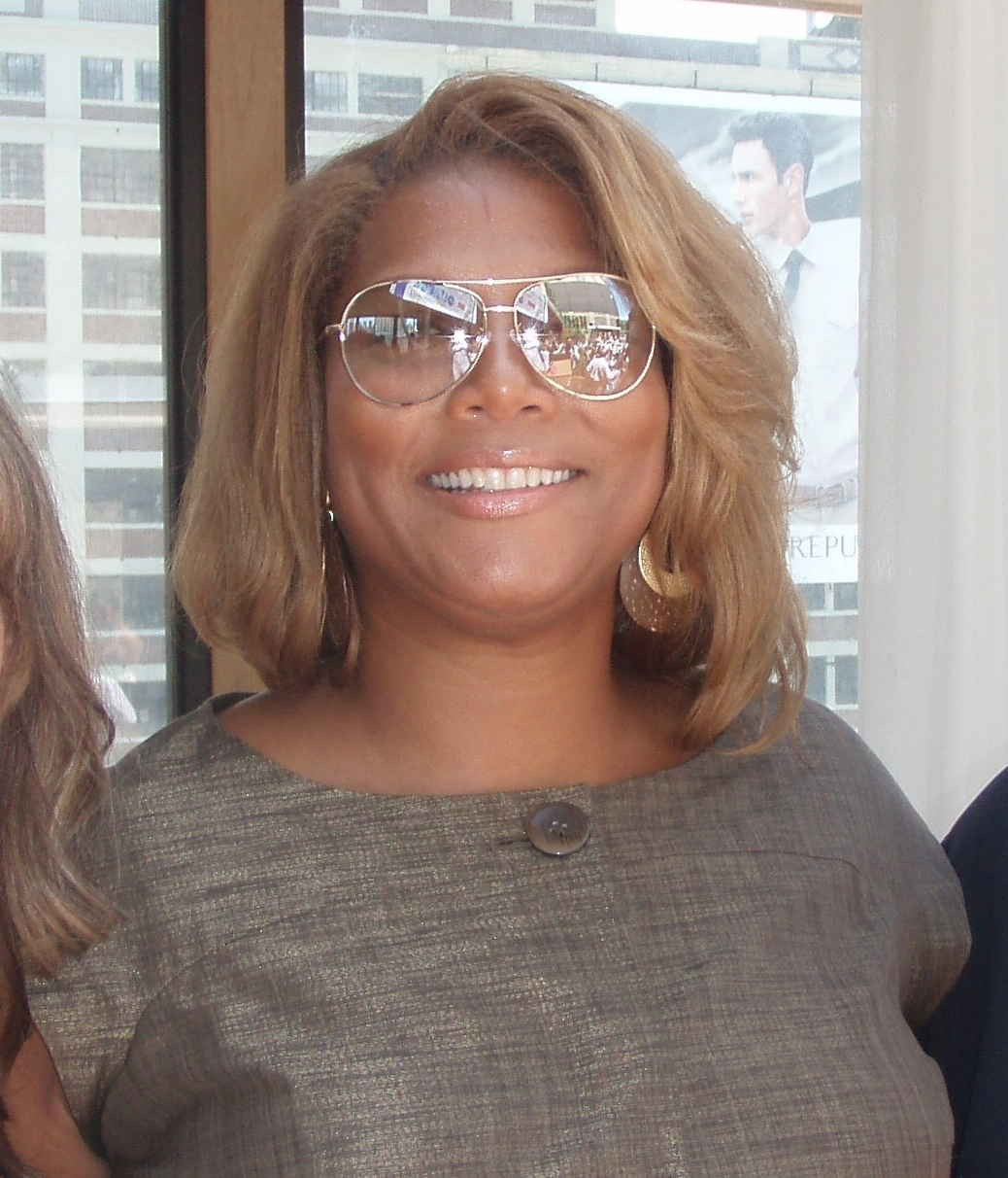 Queen Latifah at the LEAGUE 2008 National Awards and Recognition Luncheon.